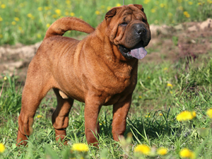 adult shar pei